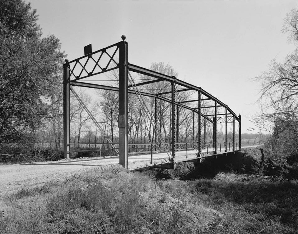 Western side of the Onion Creek Bridge, a Parker through truss bridge located south of Coffeyville, Montgomery County, Kansas, United States. Built in 1911, the bridge was added to the National Register of Historic Places on 4 January 1990.